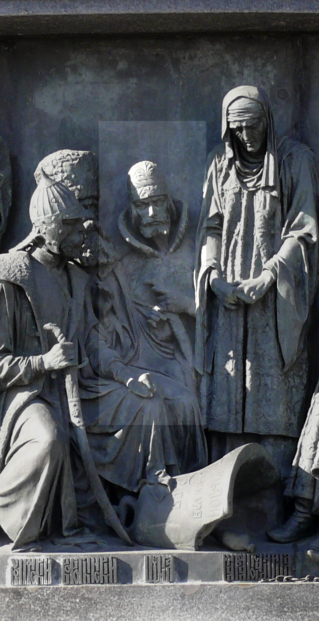 Daniil Shenya on the Monument «Millennium of Russia» in Veliky Novgorod